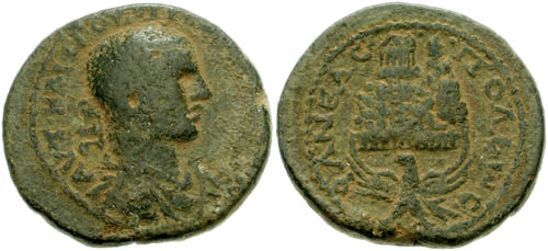 SAMARIA, Neapolis. Volusian. 251-253 AD. Æ 25mm (13.39 g). Laureate, draped and cuirassed bust right / Mt. Gerizim, with temple and altar, supported between wings of eagle. Rosenberger 125; BMC Palestine pg. 73, 161. Near VF, dark brown patina with earthen highlights.